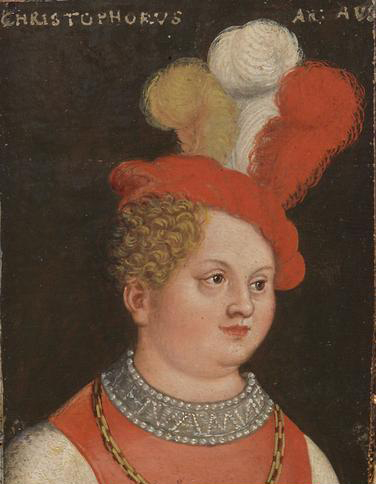 Christoff of Habsburg